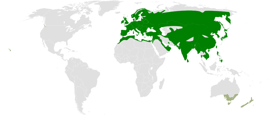 Alauda distribution map. Dark green: native; light green: introduced alien.